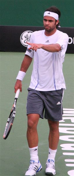 Fernando González at the 2007 Australian Open